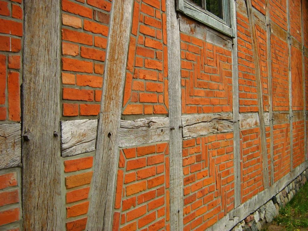 Church in the Museum in Klockenhagen, Ribnitz-Damgarten, Mecklenburg-Vorpommern, Germany